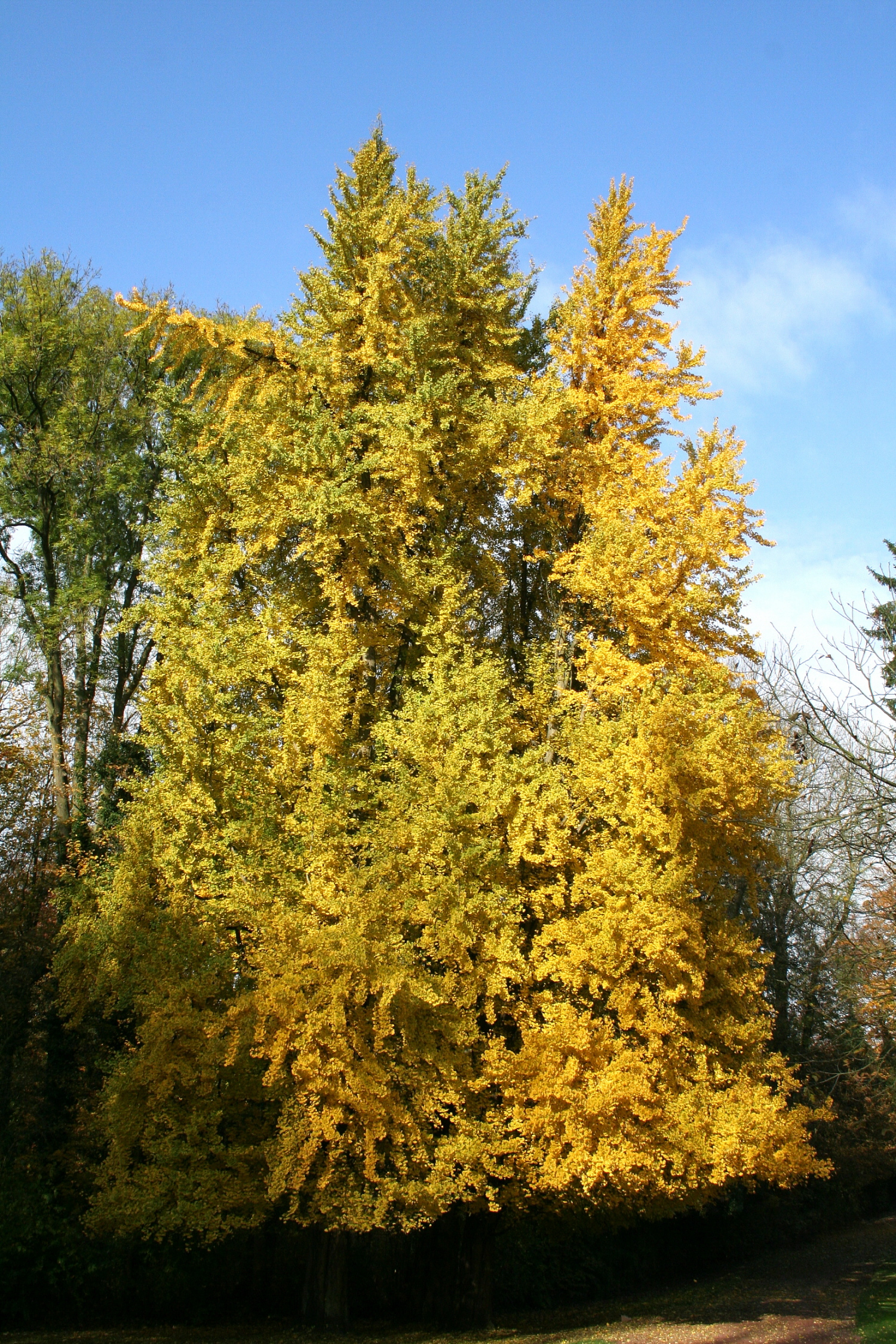 Ginkgo biloba also known as Maidenhair Tree.